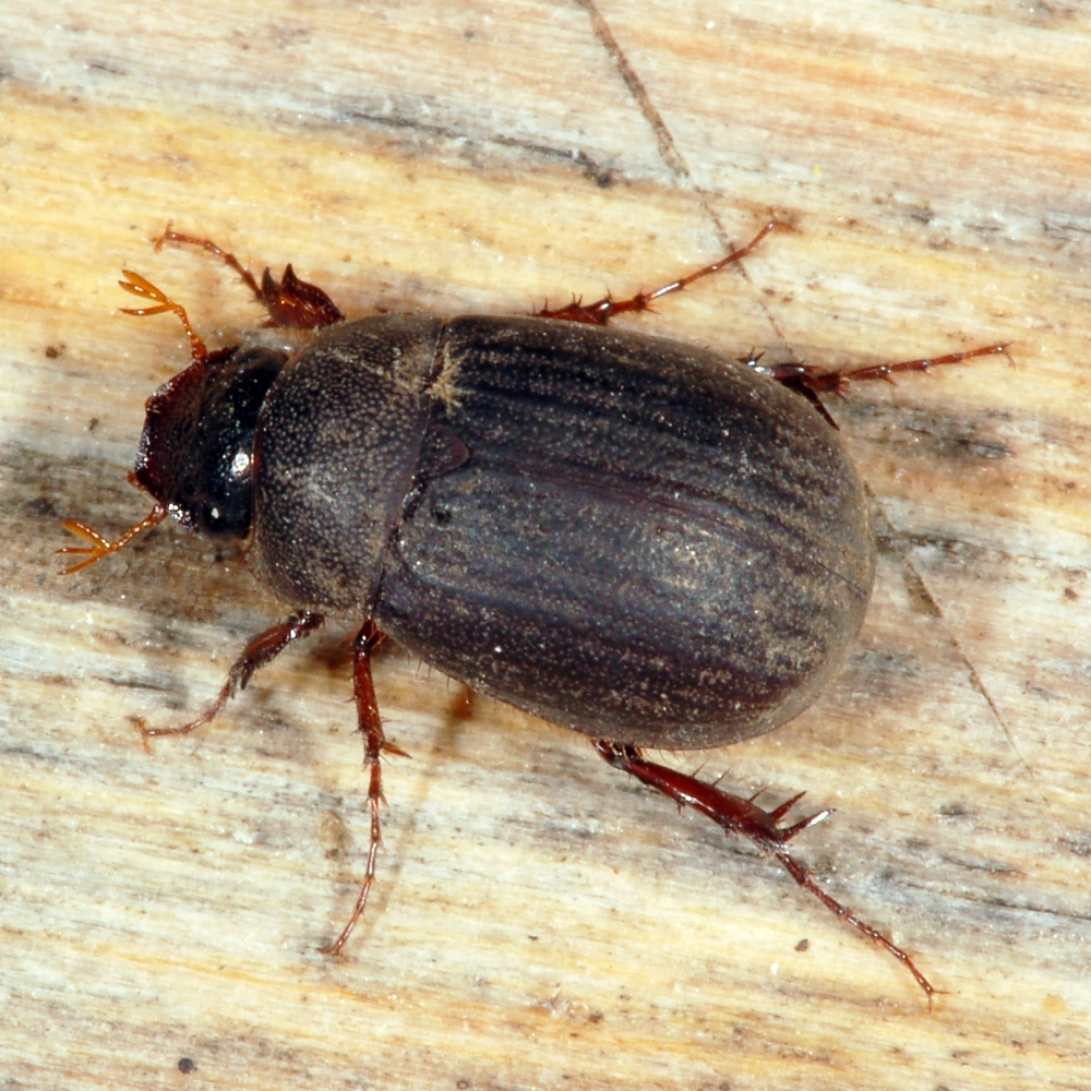 Maladera holosericea, Nied, Frankfurt/Main, Germany